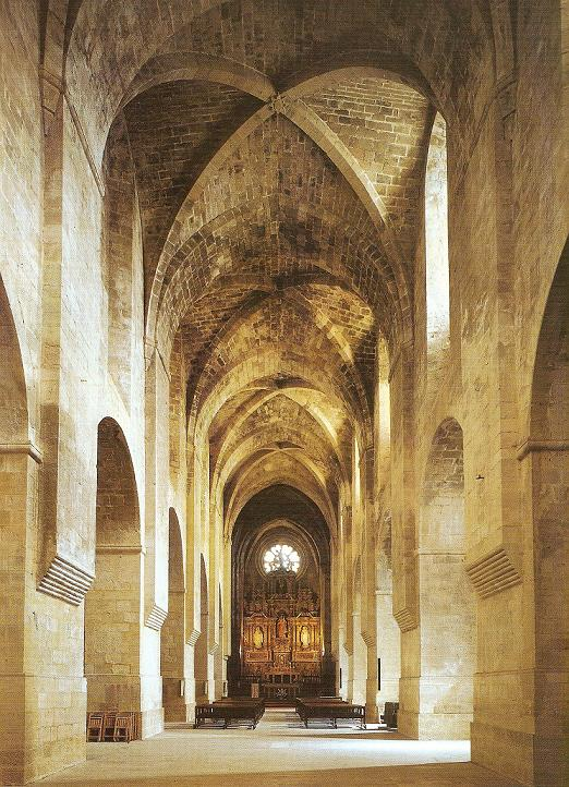 Church of Monastery of Santes Creus (Spain)